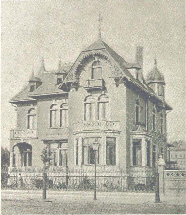 Villa Consul F. Nachod, Leipzig